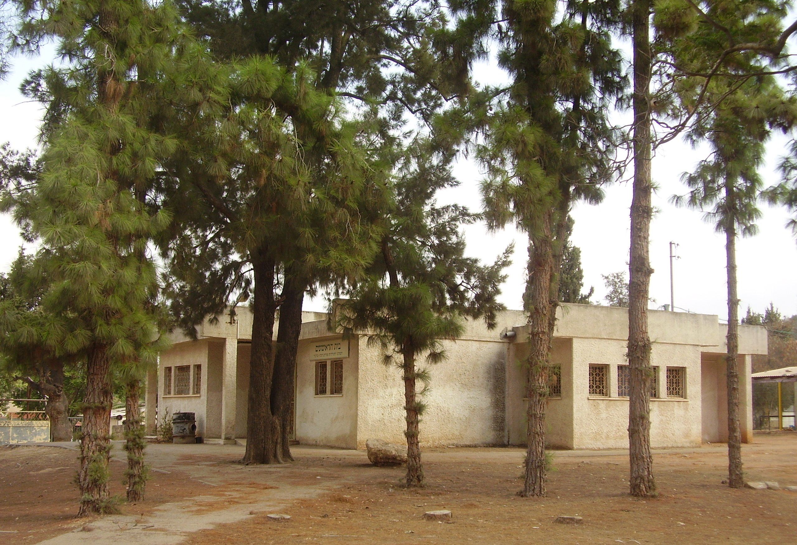 Beit haRishonim Pardes Hanna, Israel, house of the settlement's municipal archive